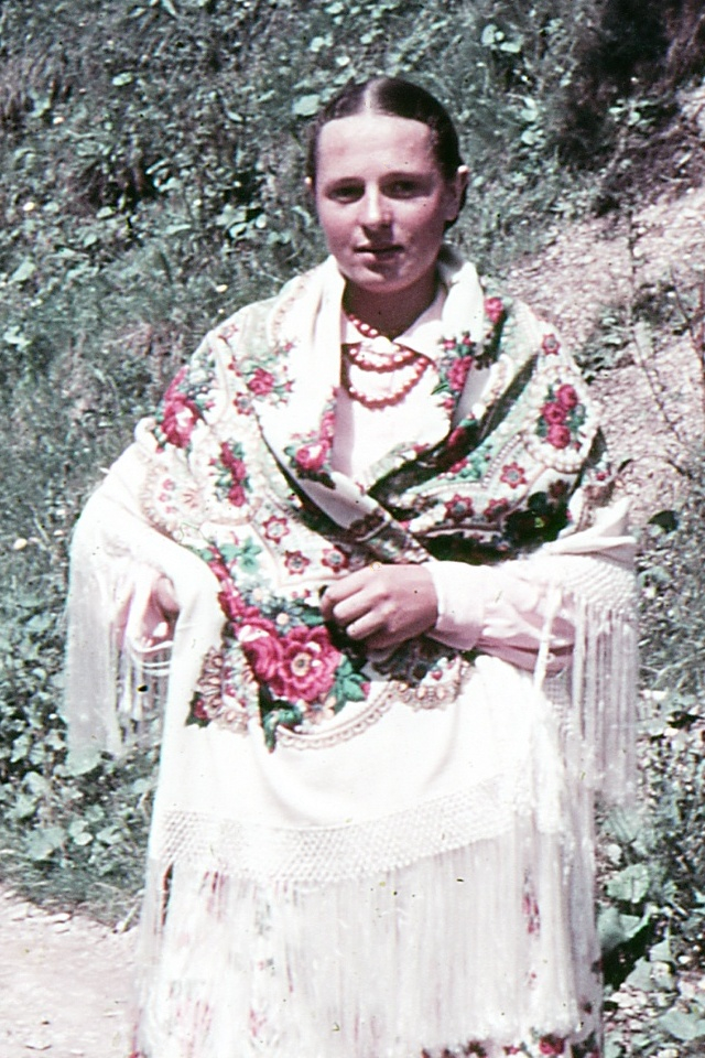 A Goral from Zakopane, Poland, wearing traditional Goral women's dress from that region. This photo was not colorized.